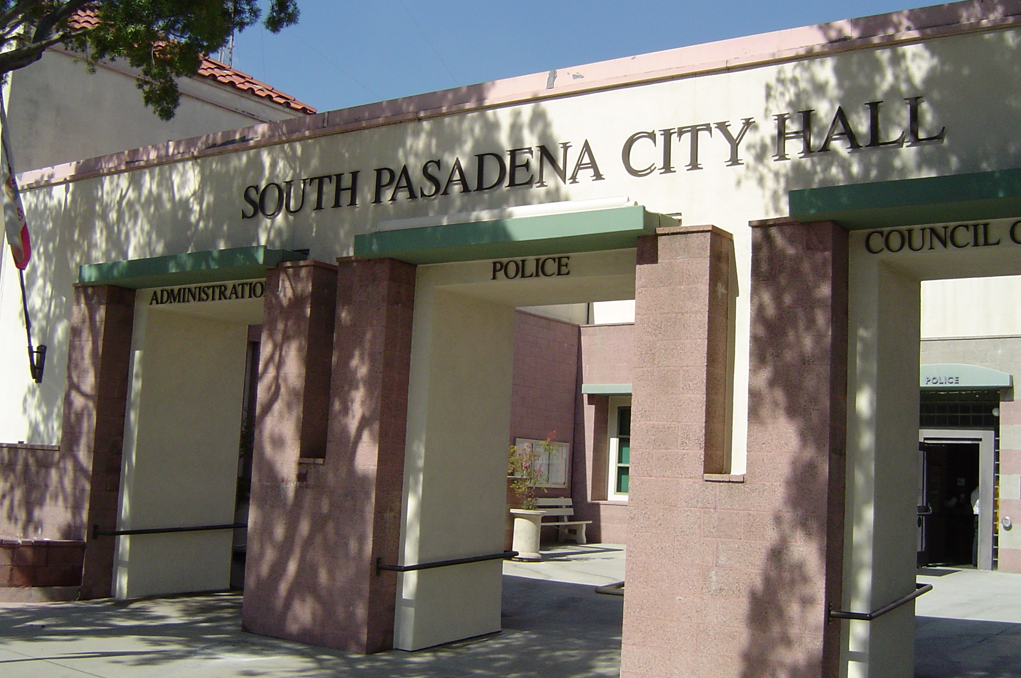 The City Hall of South Pasadenca, CA, March 1, 2006 Photographed and uploaded by user:Geographer.